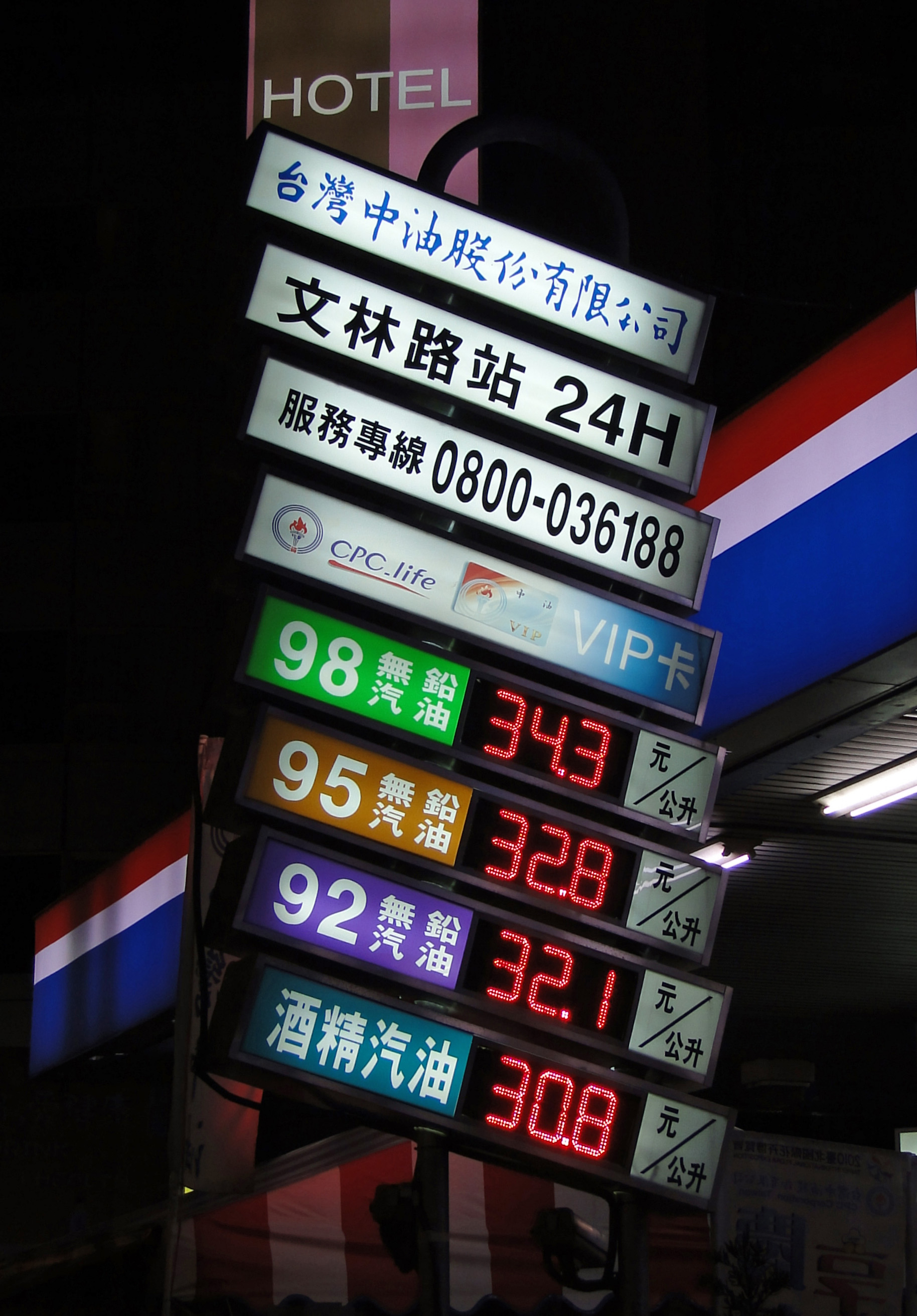 Gas prices sign in Wenlin Road Station of "CPC Corporation, Taiwan" in 2011